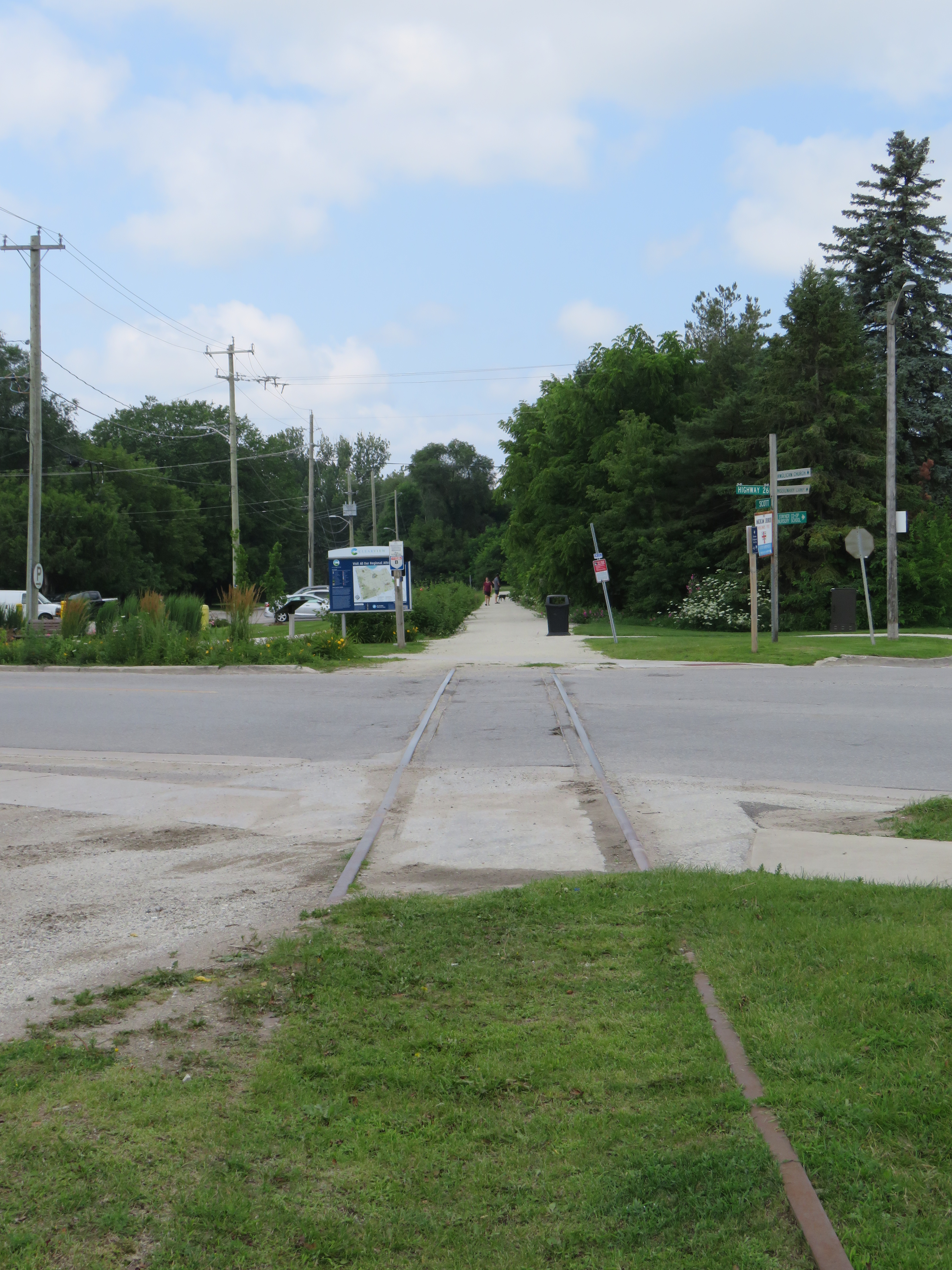 Abandoned and overgrown Barrie-Collingwood Railway track in Stayner, Ontario, Canada, in 2019. Note the parallel trail